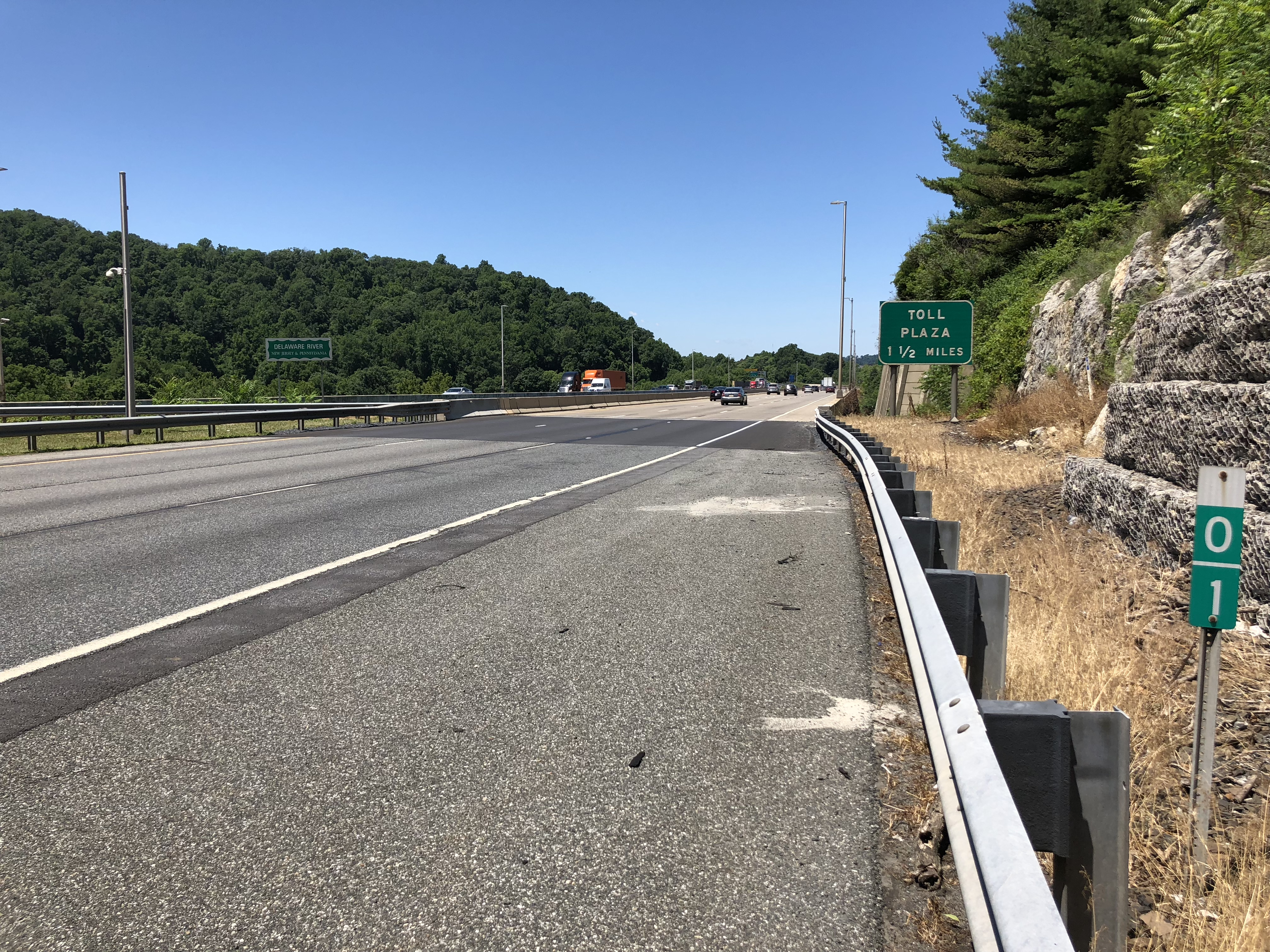 View west along Interstate 78 (Phillipsburg-Newark Expressway) just east of the Delaware River Bridge in Phillipsburg, Warren County, New Jersey